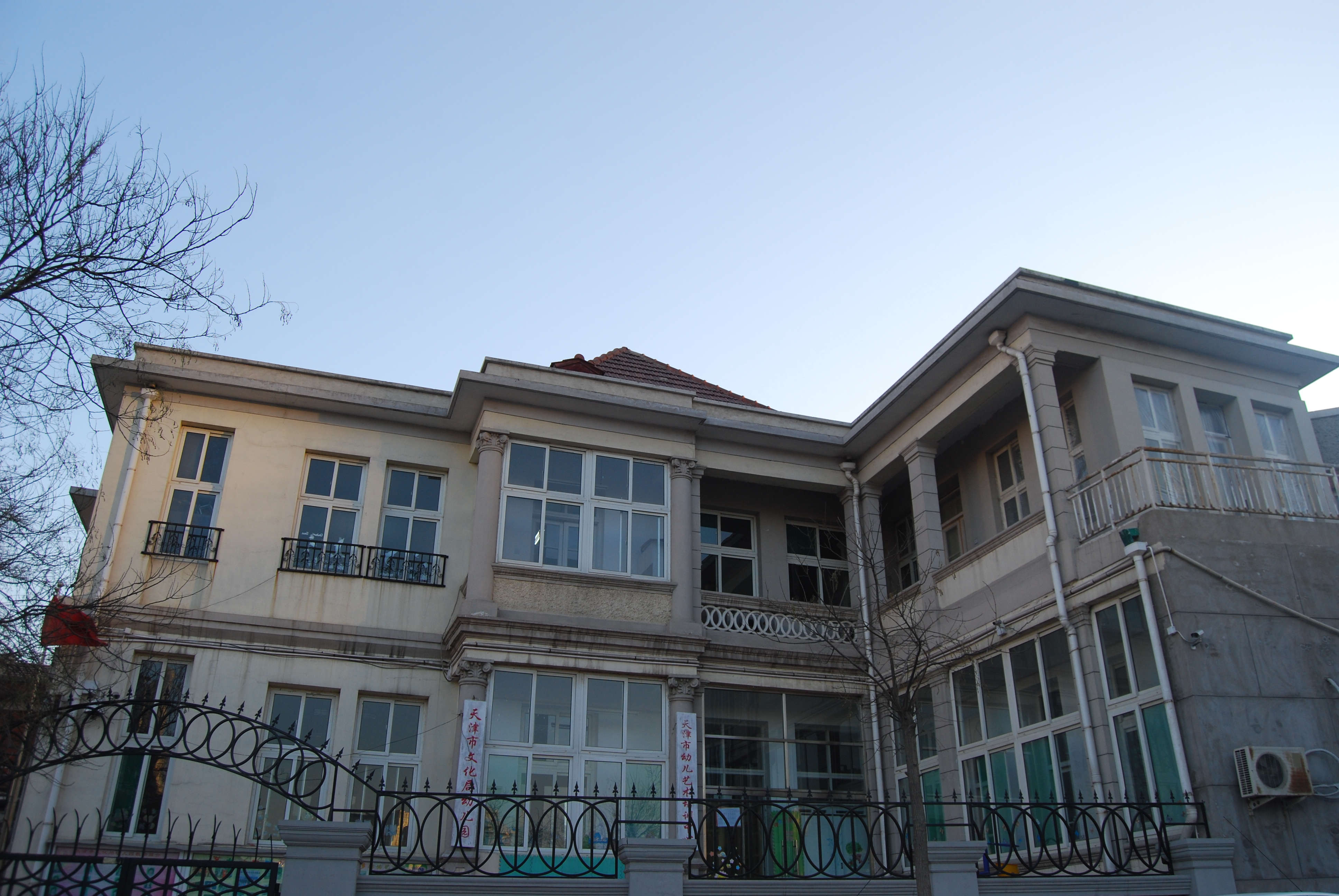 The Former Residence of Cao Kun (1862–1938) in Luoyang Dao No. 45 and Nanhai Lu No. 2, Heping District, Tianjin